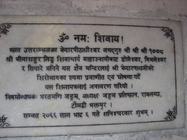 Sheela lekh in Doleshwar Mahadev Temple